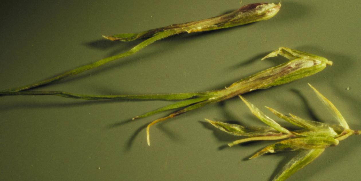 The spikelets comprise florets that are usually transformed into small vegetative bulbs or bulblets. The vegetative bulb to the right was removed from a pair of glumes at lower left.